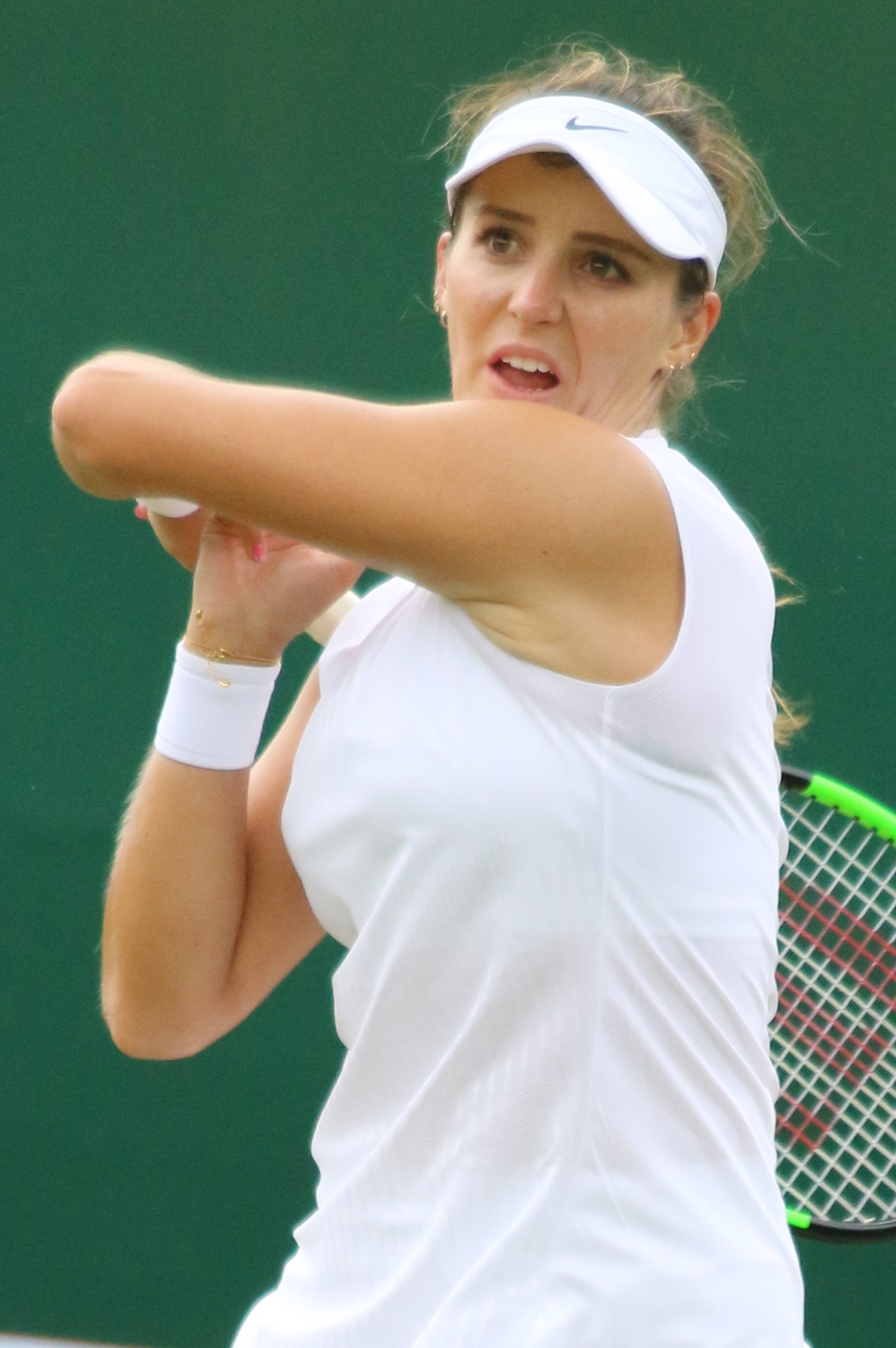 Robson WM17 (5)